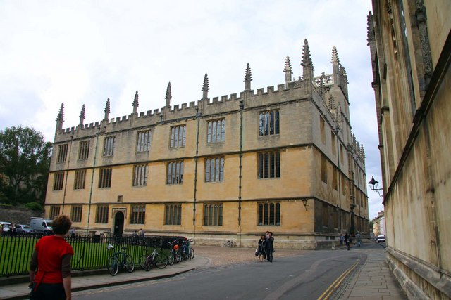 The Bodleian Library